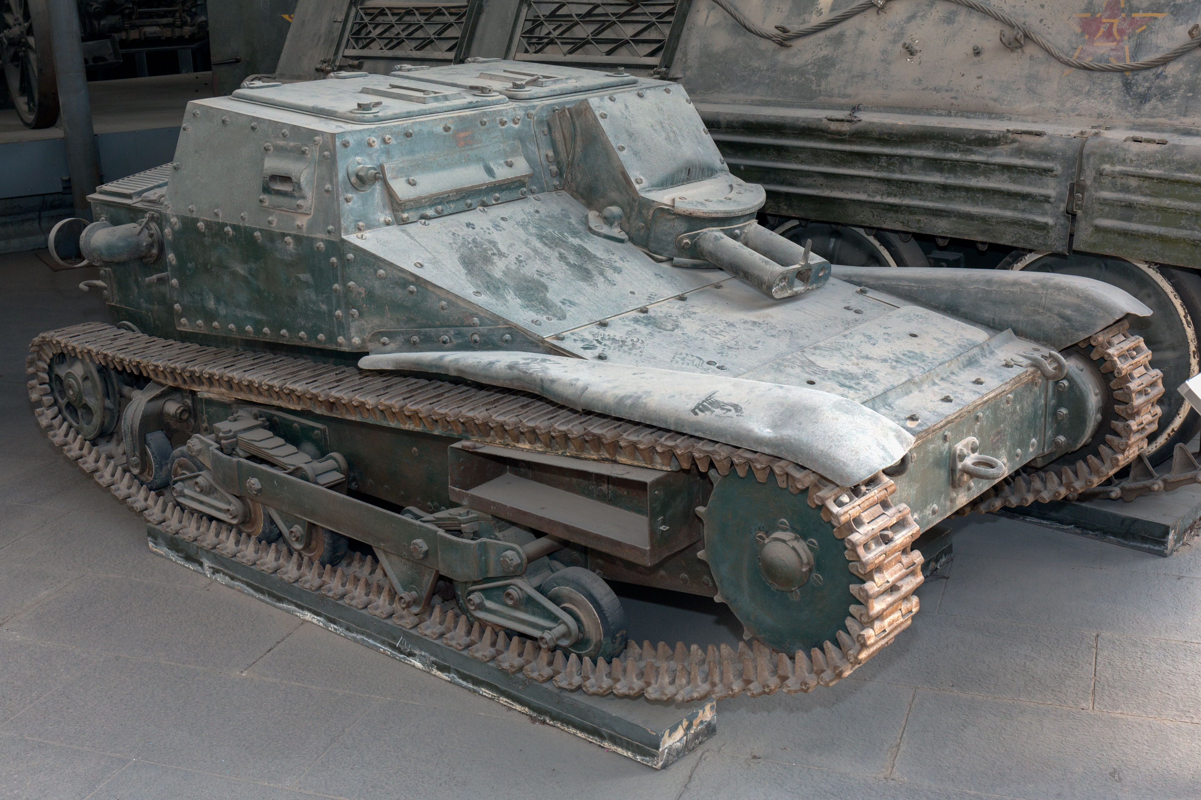 CV-33 light scout tank